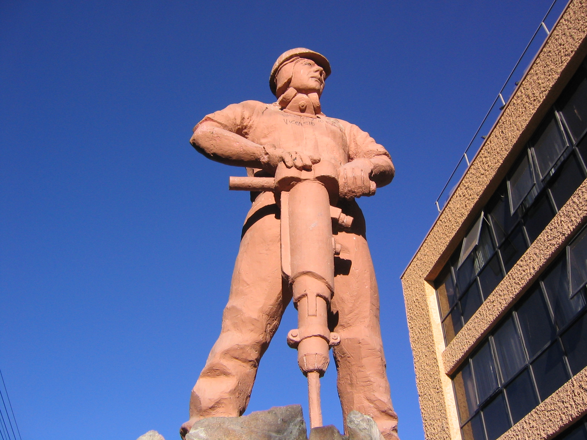 Statue in Calama, mining town in Northern Chile near the Chuquicamata Copper Mines.